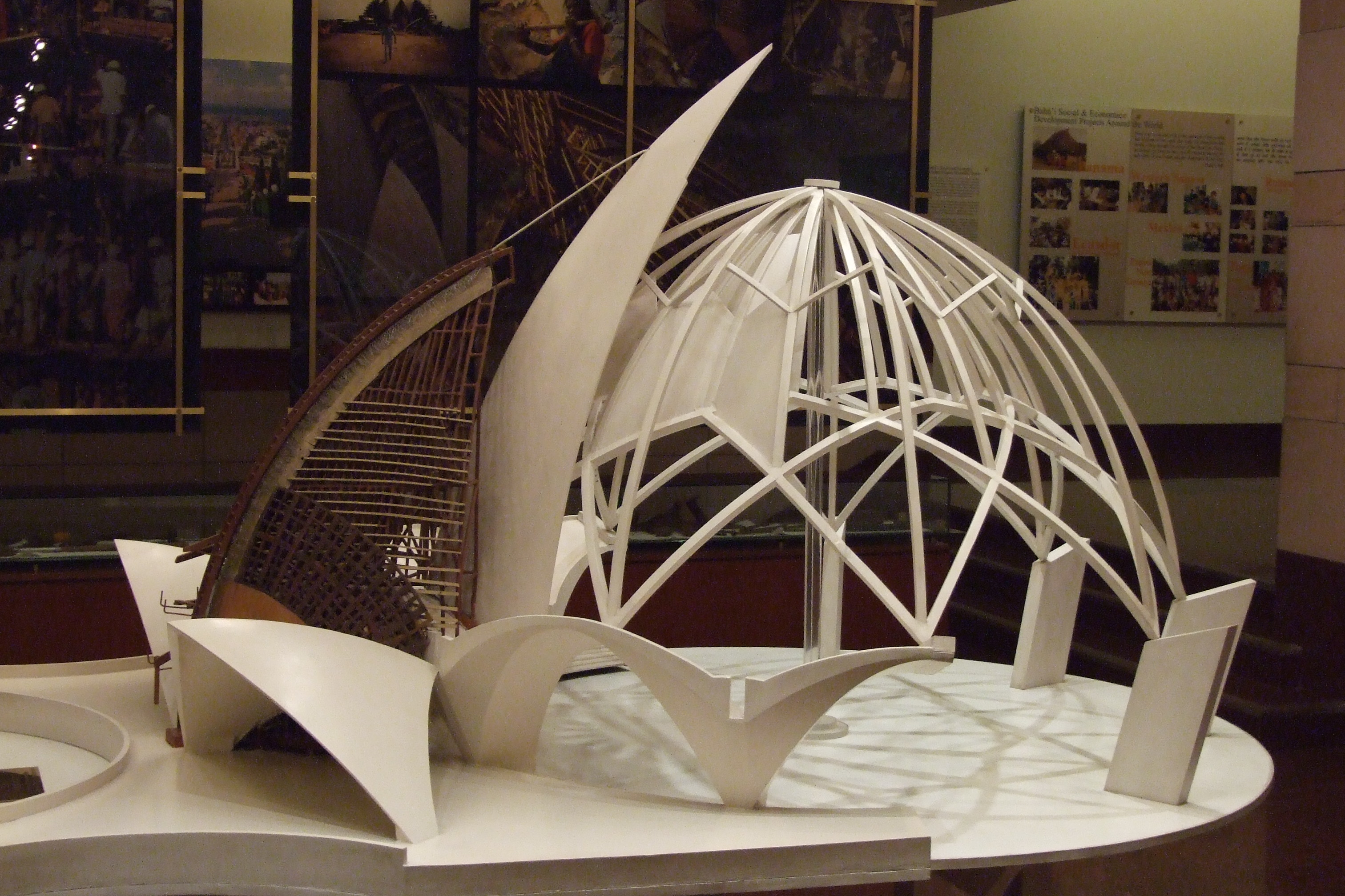 Model at information centre at the Lotus Temple, New Delhi, India